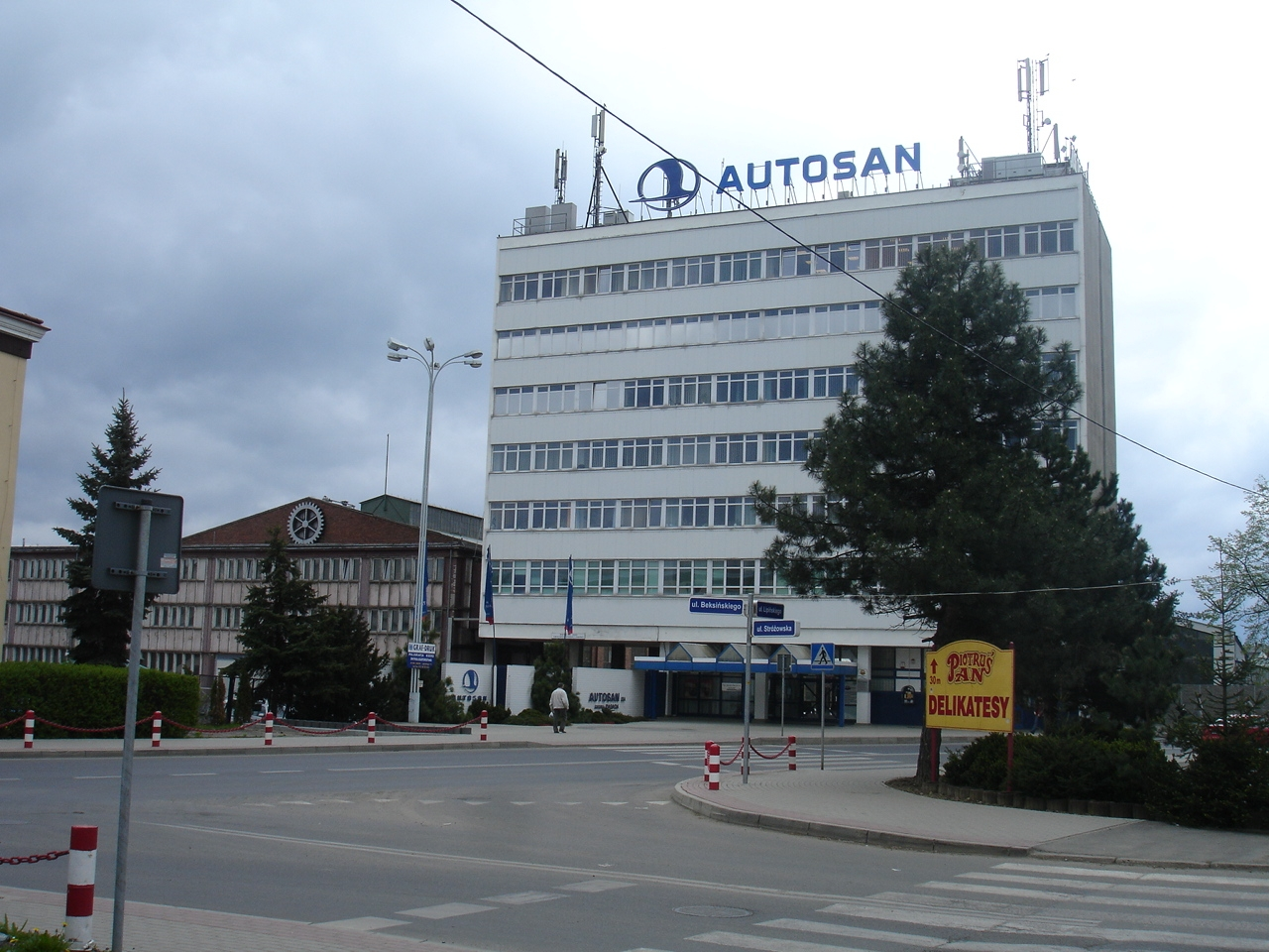 sanok bus car factory